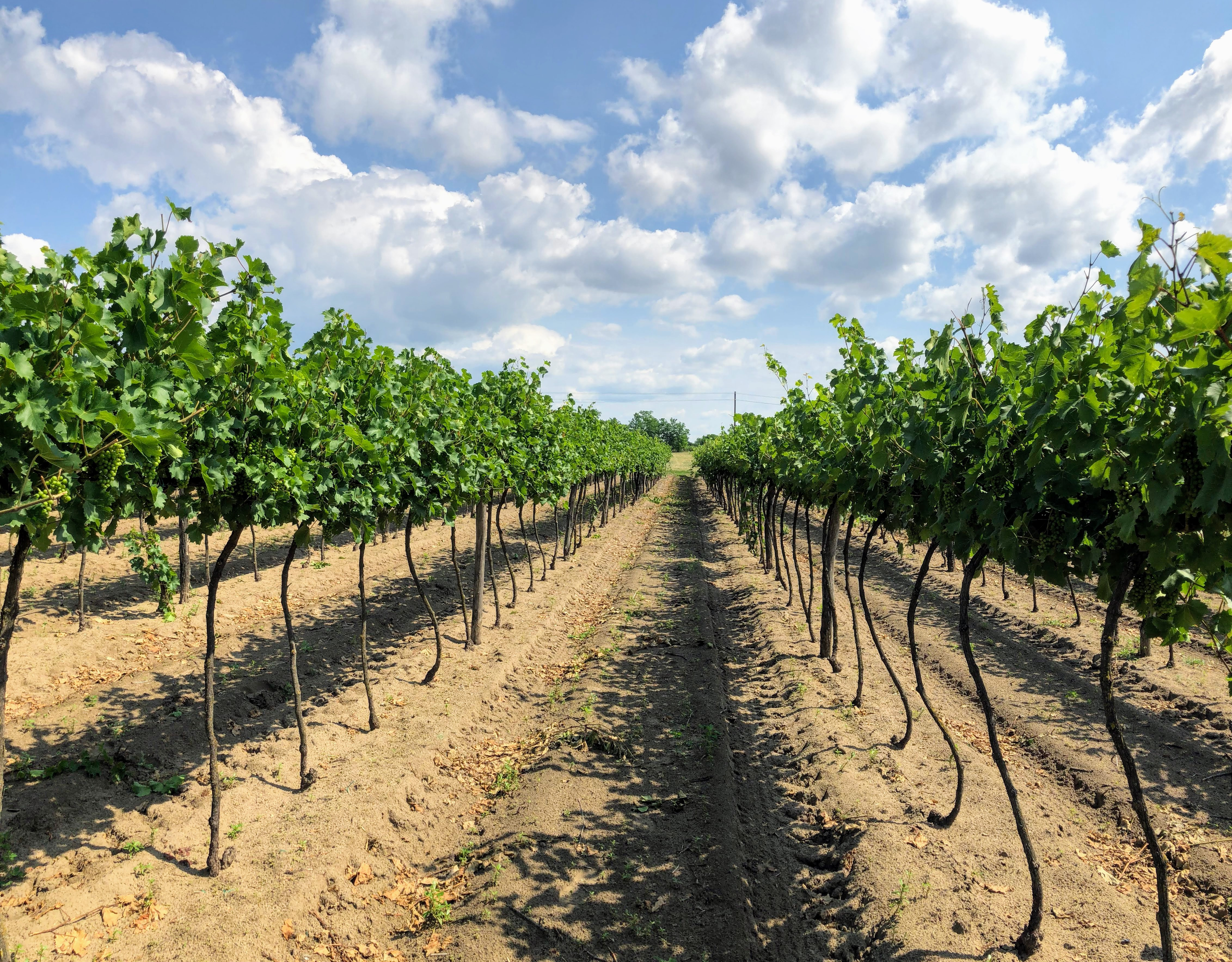 Typical vineyard around Kiskőrös - 2018. Place: 46°38'19.5"N+19°18'56.6"E/@46.6387528,19.3135307,17